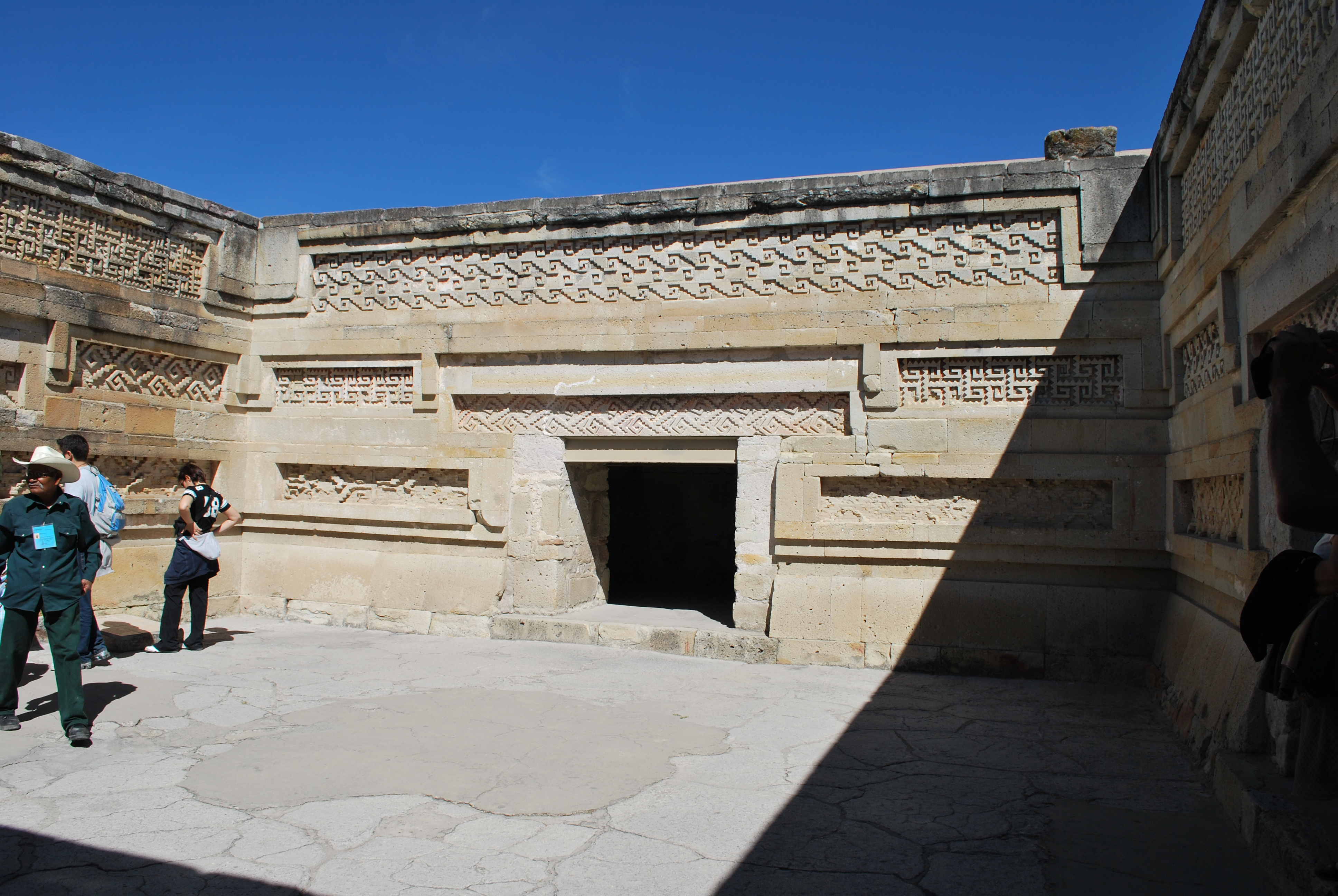 View of the inner courtyard of the Palace of the archeological site of Mitla, Oaxaca